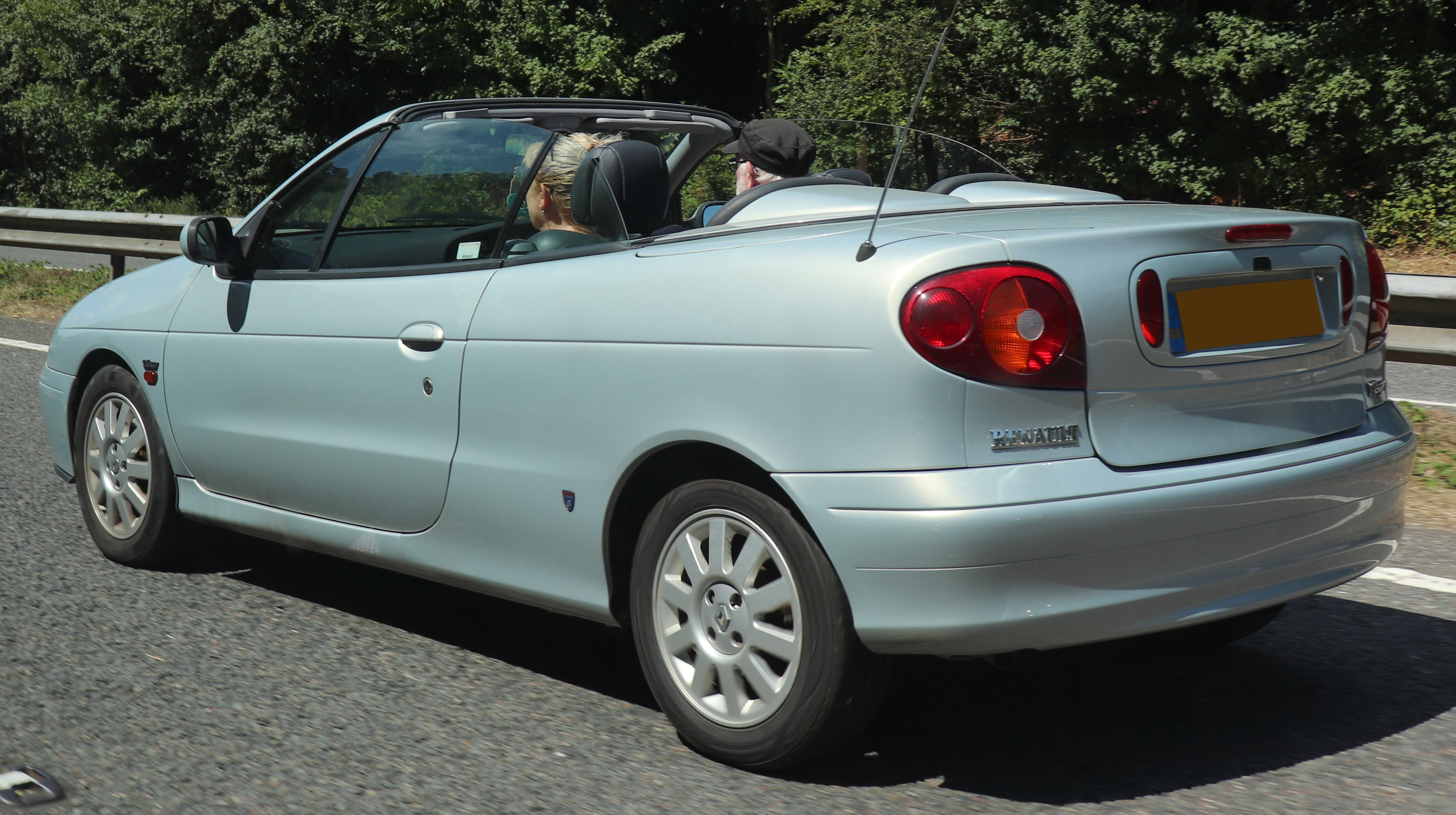 2002 Renault Megane Privilege+ CBR Automatic 1.6